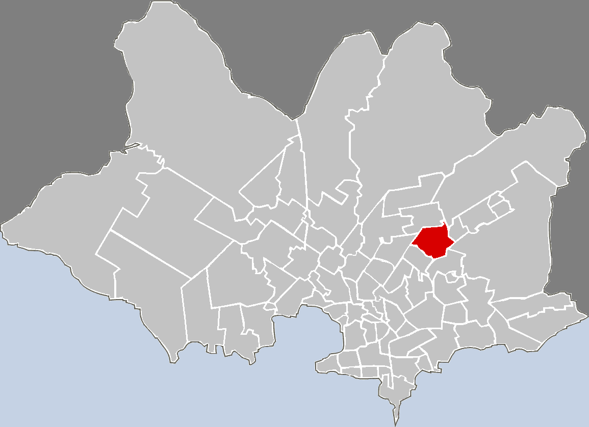 Map highlighting the given barrio in Montevideo.